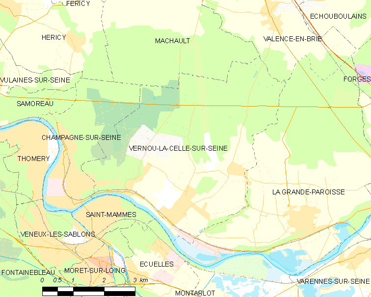 Map of French municipality Vernou-la-Celle-sur-Seine